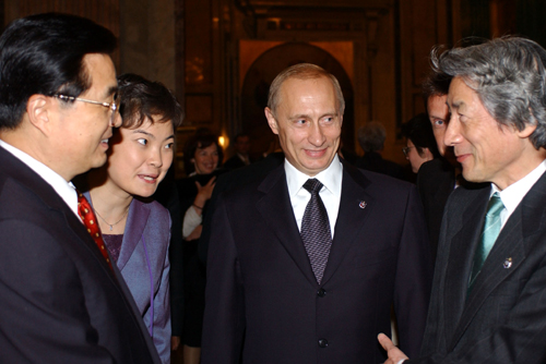 ST ISAAC\'S CATHEDRAL, ST PETERSBURG. President Putin with Chinese President Hu Jintao and Japanese Prime Minister Junichiro Koizumi.